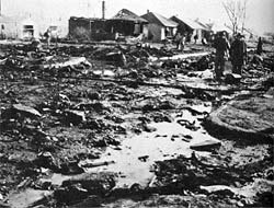 Aftermath of the crash of a Boeing KC-135A-BN Stratotanker tail number 57-1442 operated by the United States Air Force.